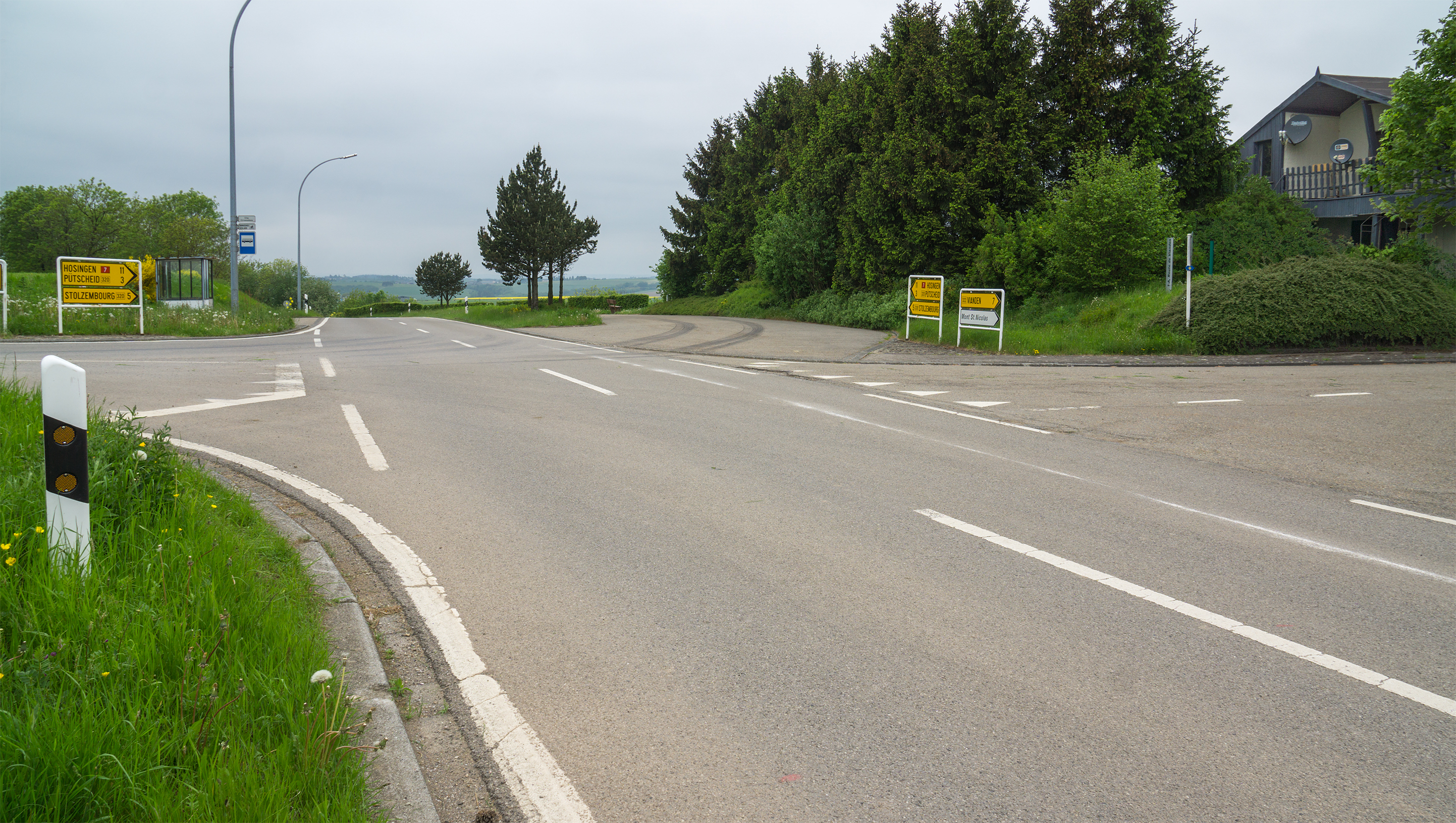 Crossroad of CR322 and CR352 in Groesteen near Putscheid